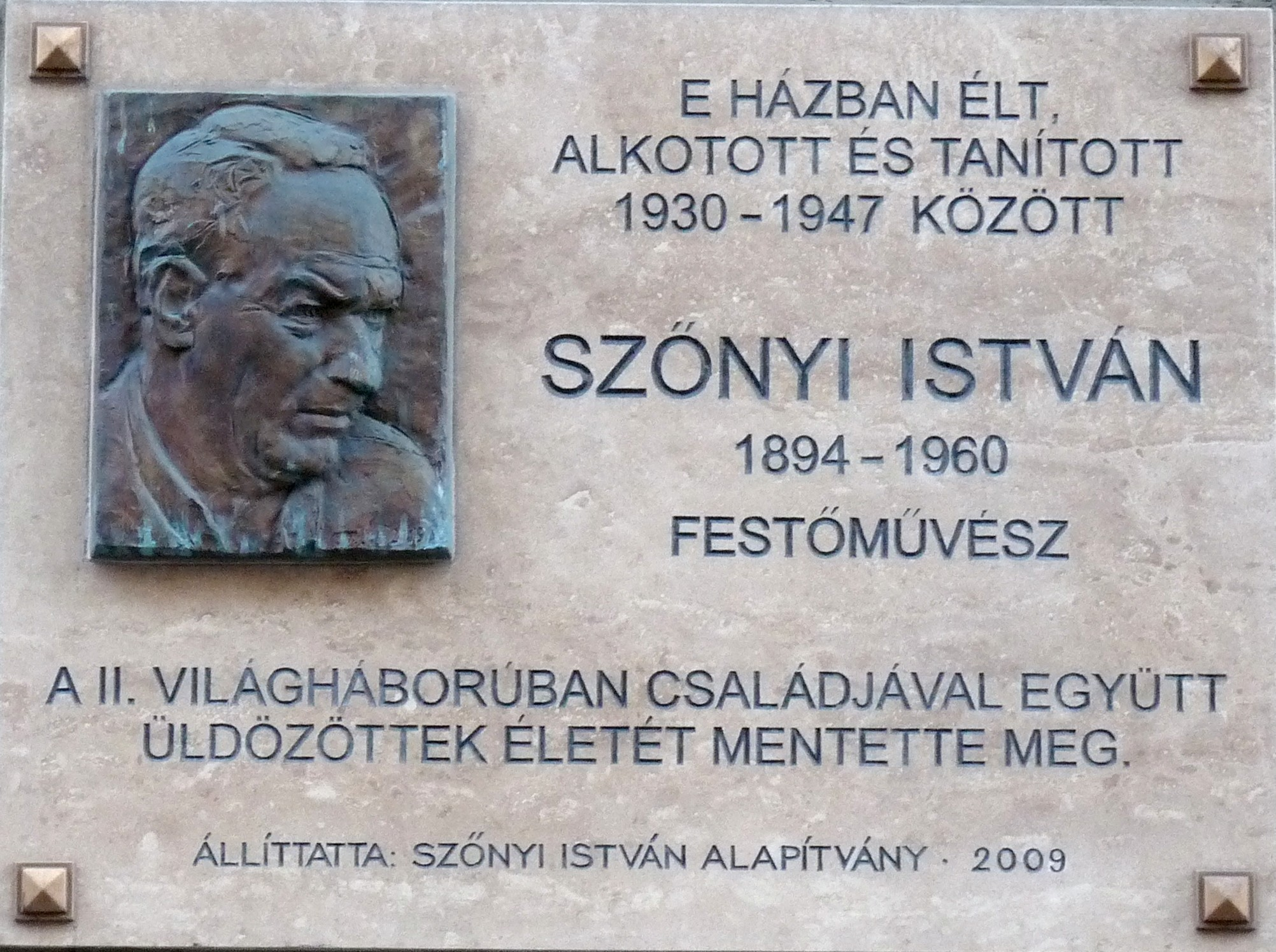 Commemorative plaque to Mr. István Szőnyi (1894–1960) Hungarian painter and graphic artist, affixed to the wall of his former home. Author of the bronz relief: István Buda. It was unveiled on October 6, 2009. (Budapest, District VIII, Baross Street Nr 21).